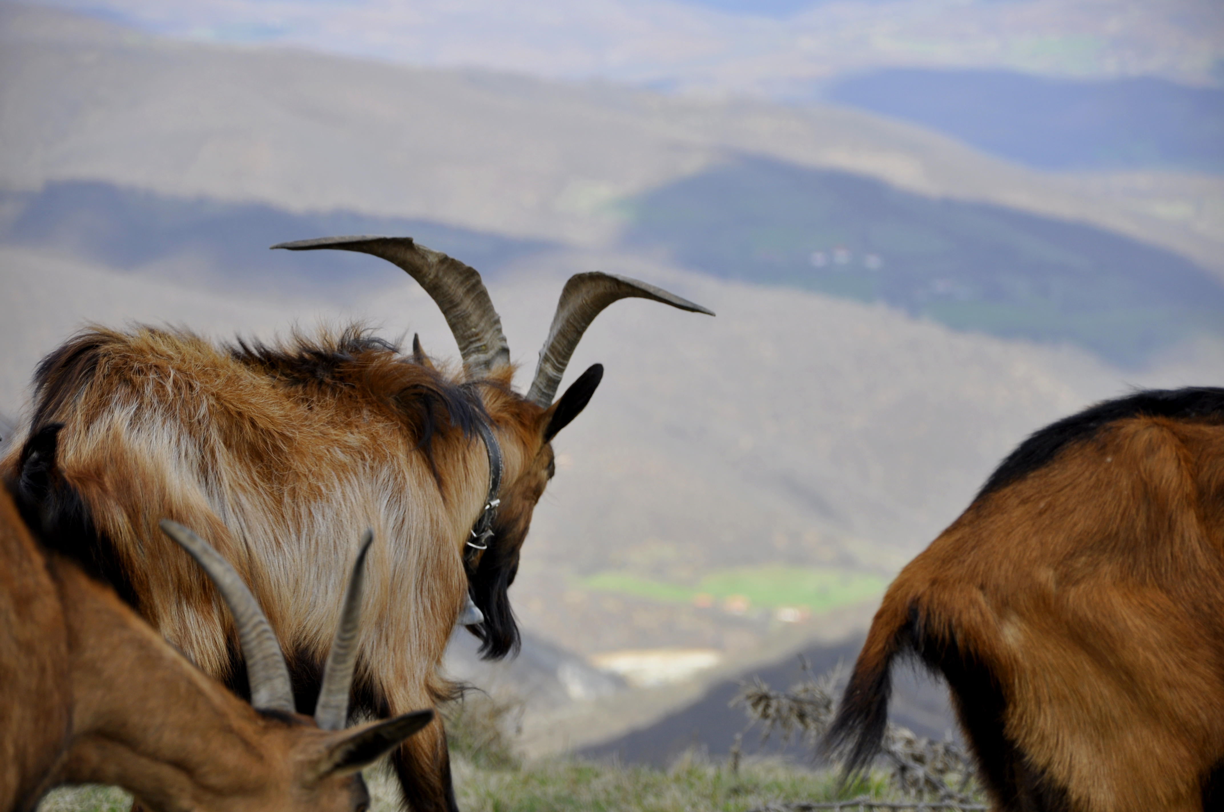 Diversiteti Novobërdë Marec